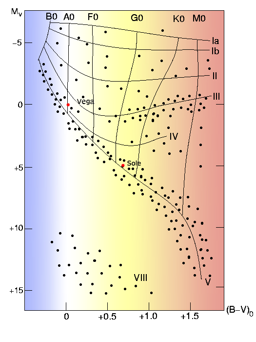 Vega and Sun on Hercprung - Russel Diagram, Vega (Вега) and Sun (Солнце) are red dots